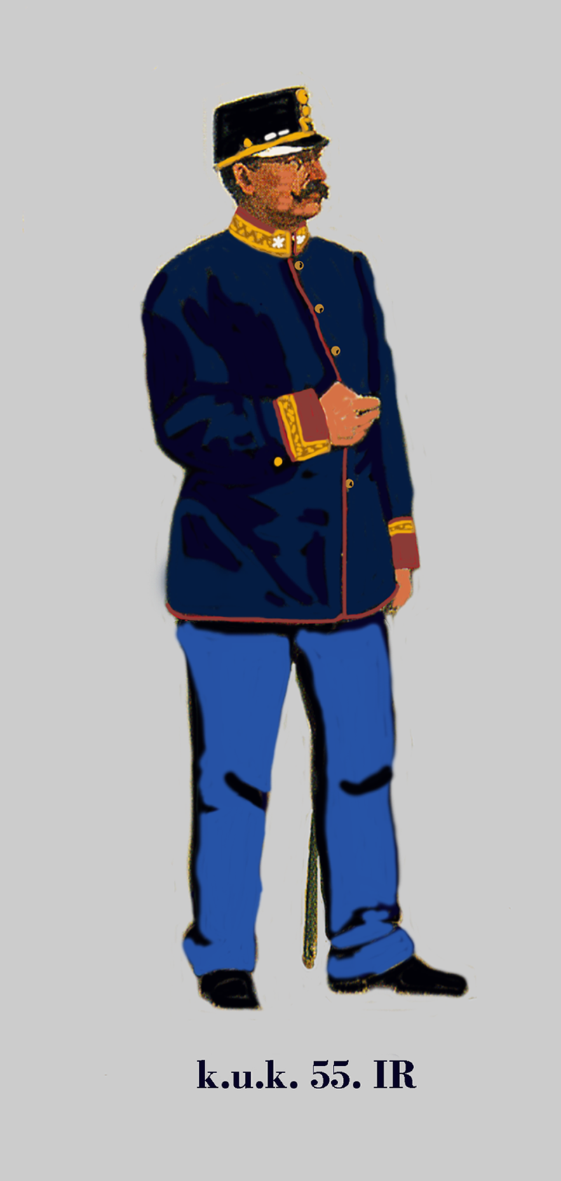 Major of the Austria-Hungarian (k.u.k.). 55th german Infantry Regiment in Service dress 1914